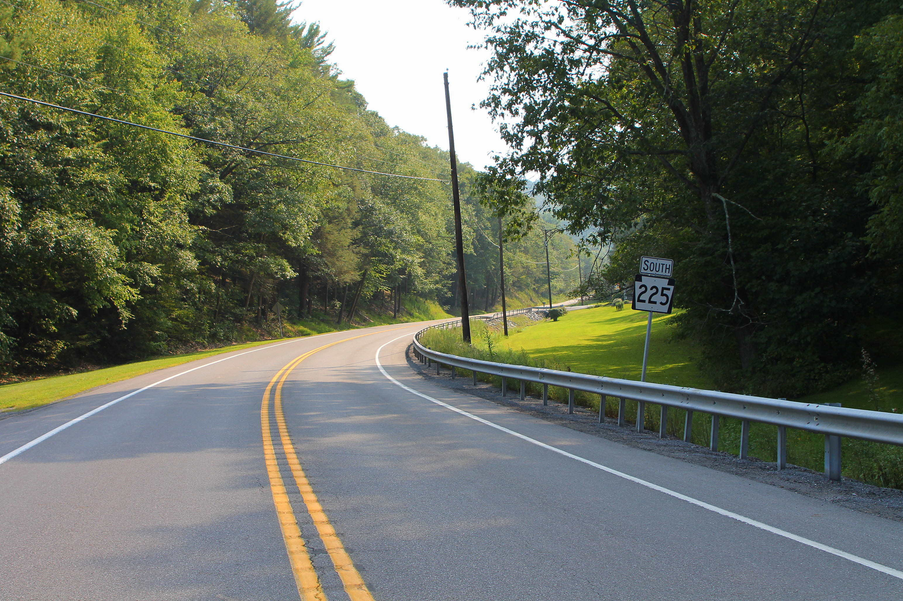 Pennsylvania Route 225 south in Jackson Township, Northumberland County